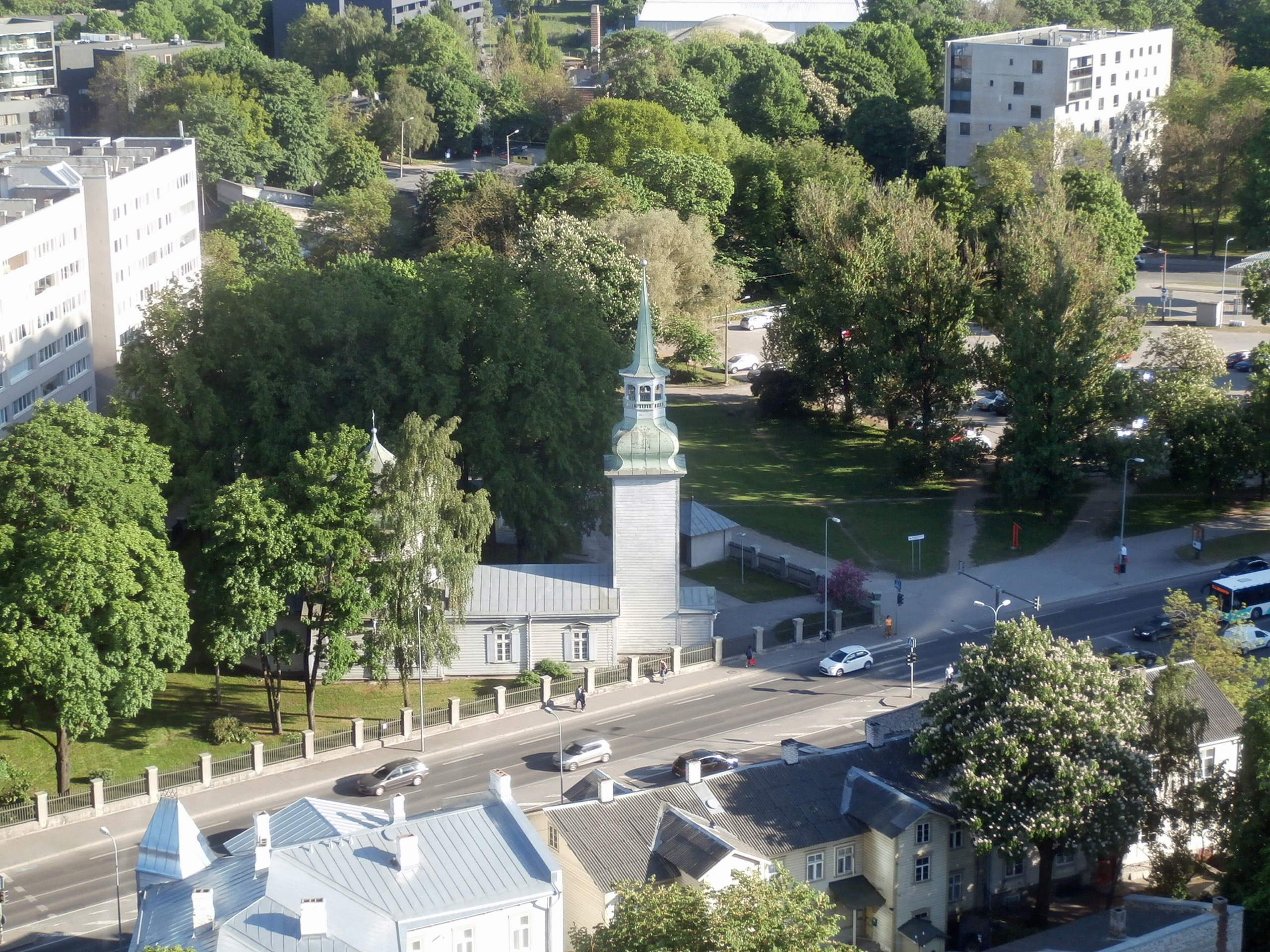 Kazanskaya Tserkov in the Liivalaia 38, Tallinn 25 May 2016